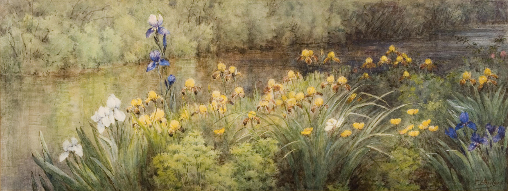 Fidelia Bridges, Irises Along the River. Provenance: O'Brien Art Galleries, Chicago, Illinois.